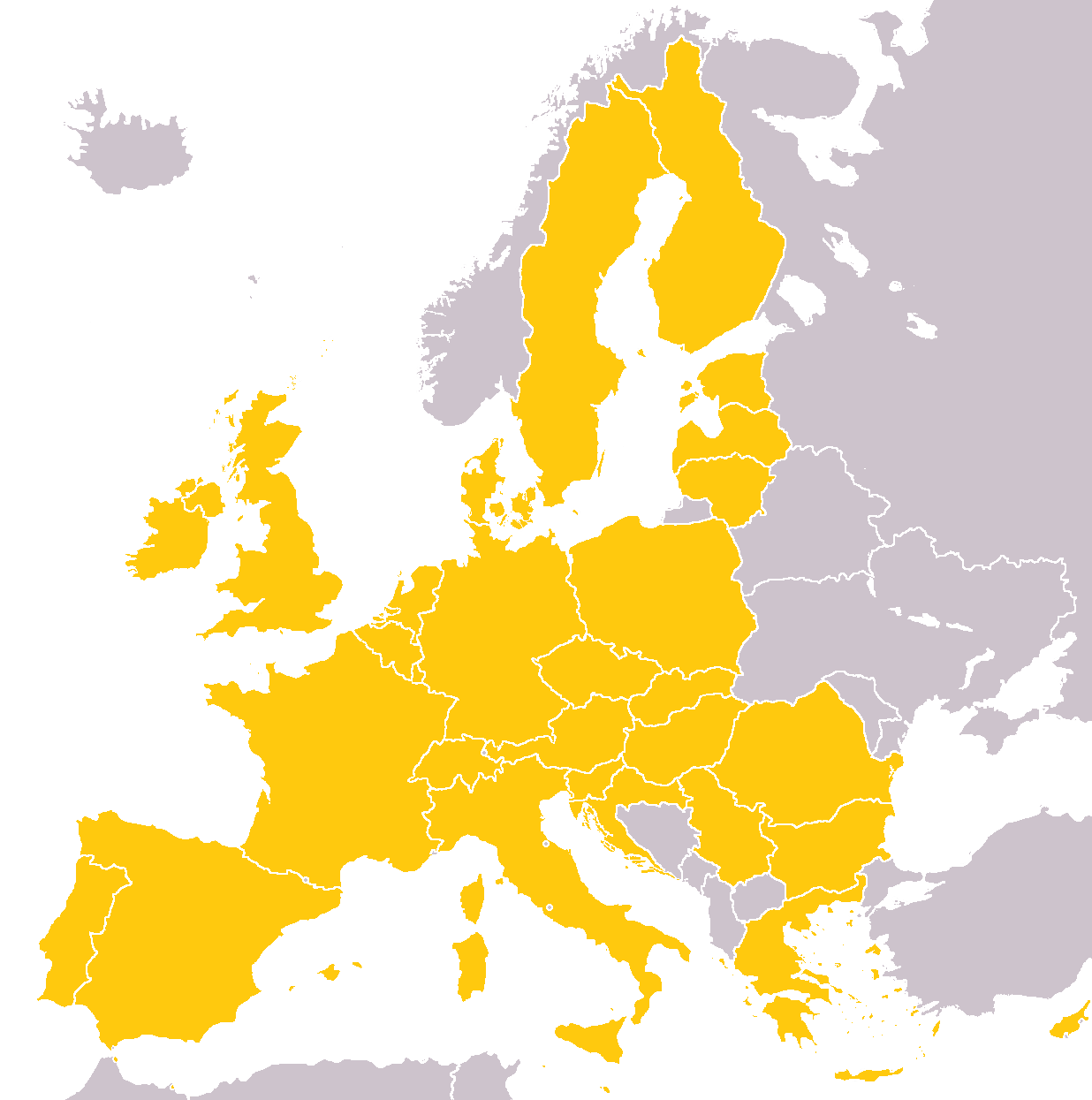 LIDL EUROPE